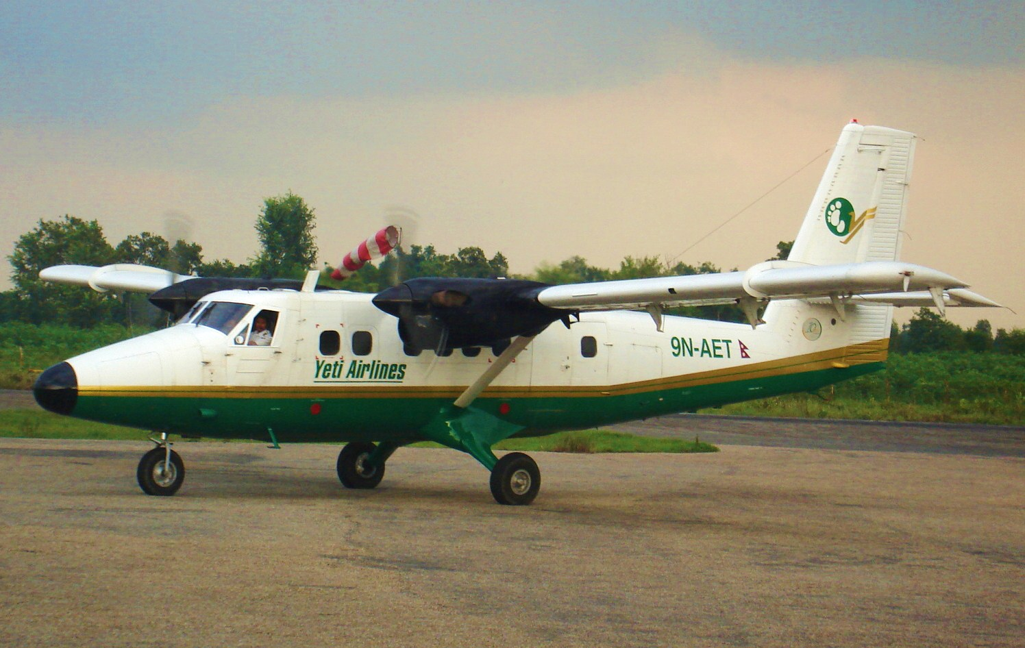 Yeti Airlines Twin Otter at Simara Airport (SIF)